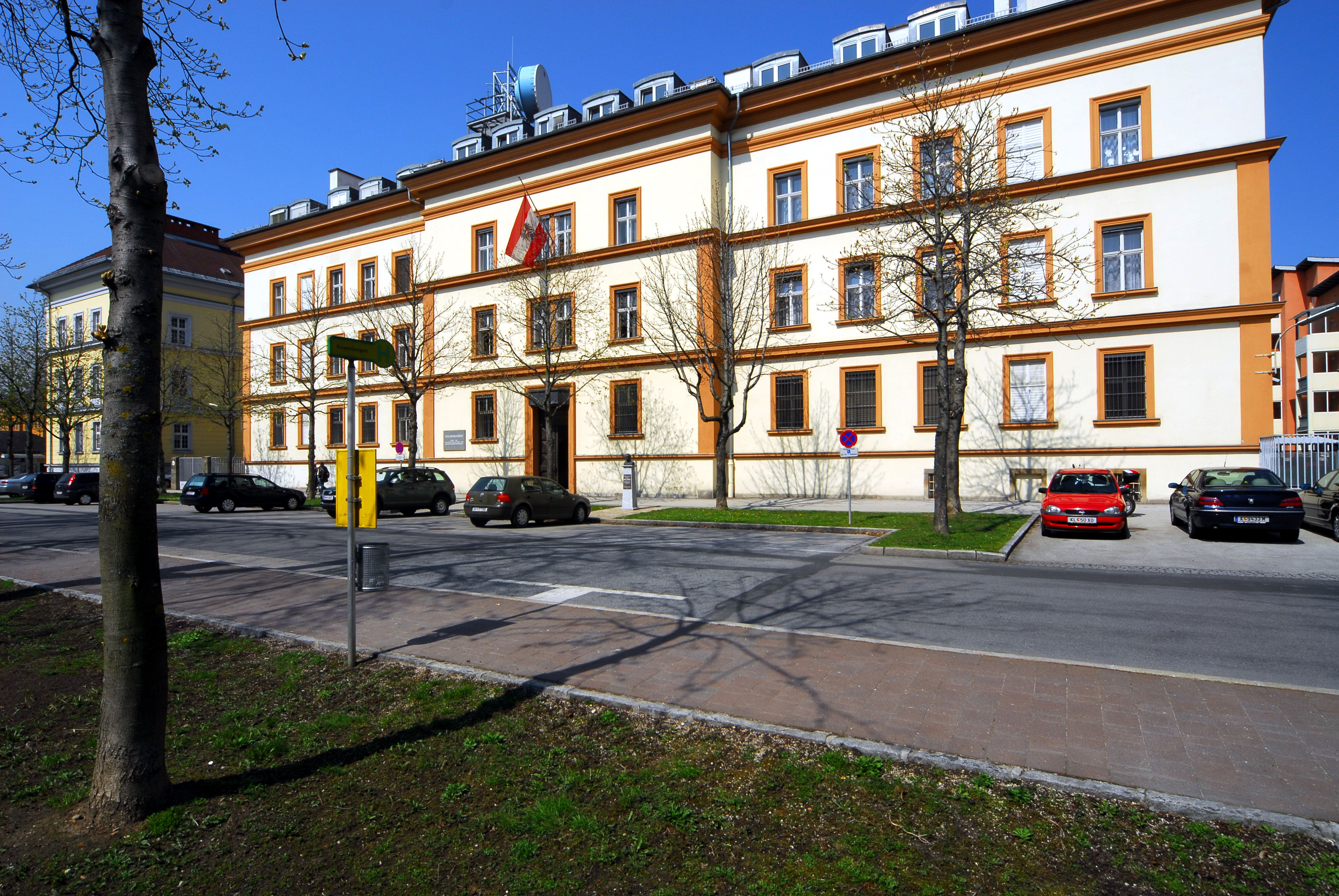 Huelgerth barrack on the Miesstalerstrasse #11 in the 6th district "Völkermarkter Vorstadt" of Carinthian`s capital Klagenfurt on the Lake Woerth, Carinthia, Austria